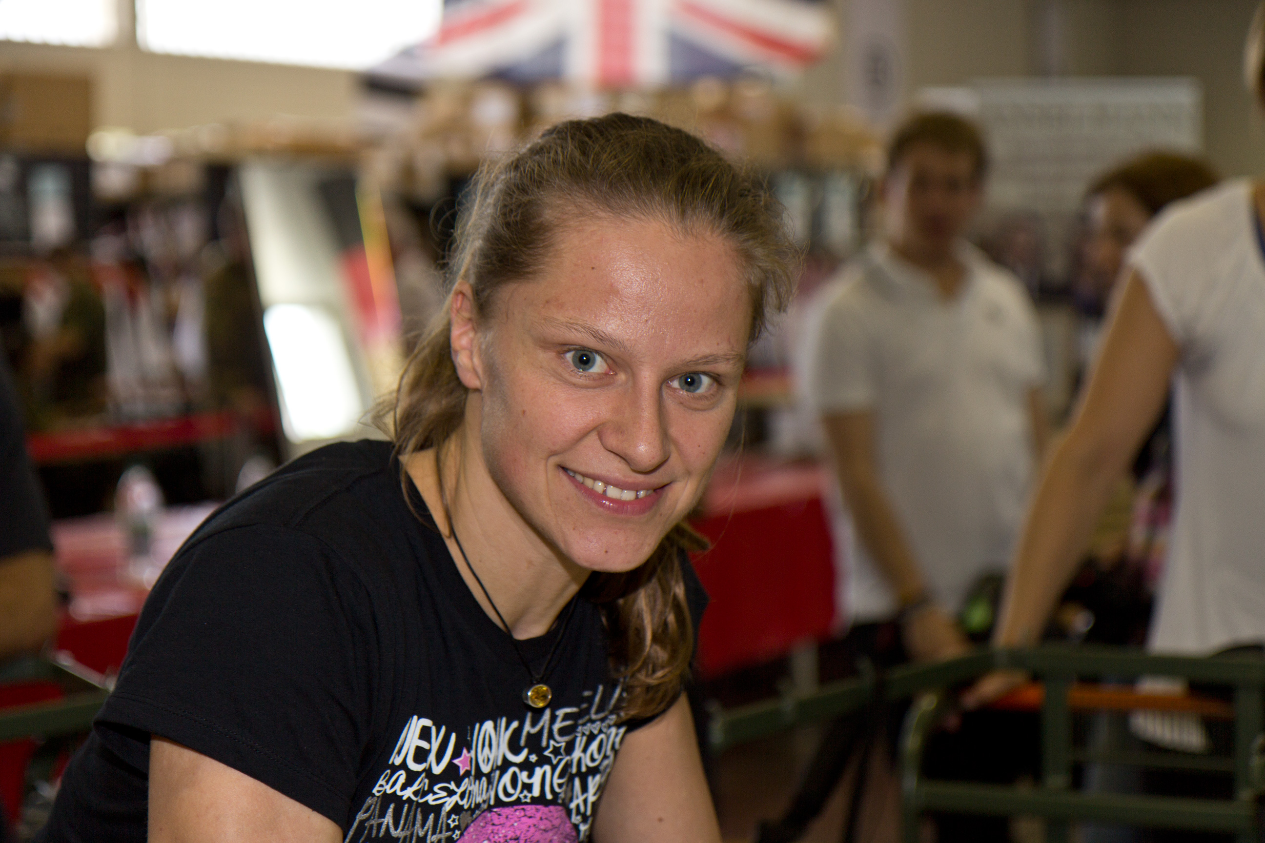 Outfitting the Olympic team of Germany 2012